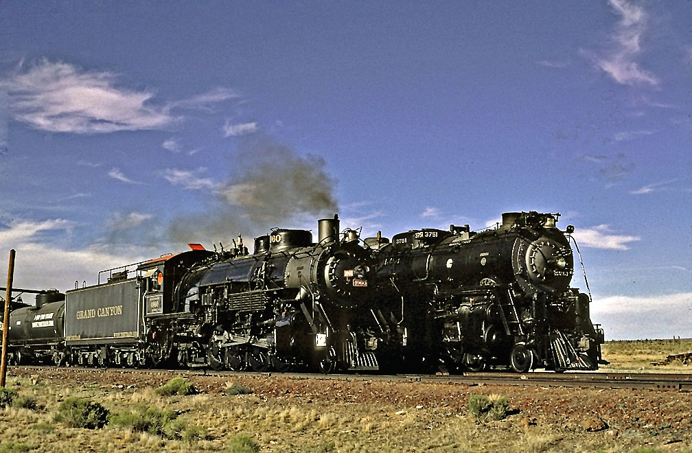 August of 2002, GCRy #4960 passes ATSF #3751 at Willaha